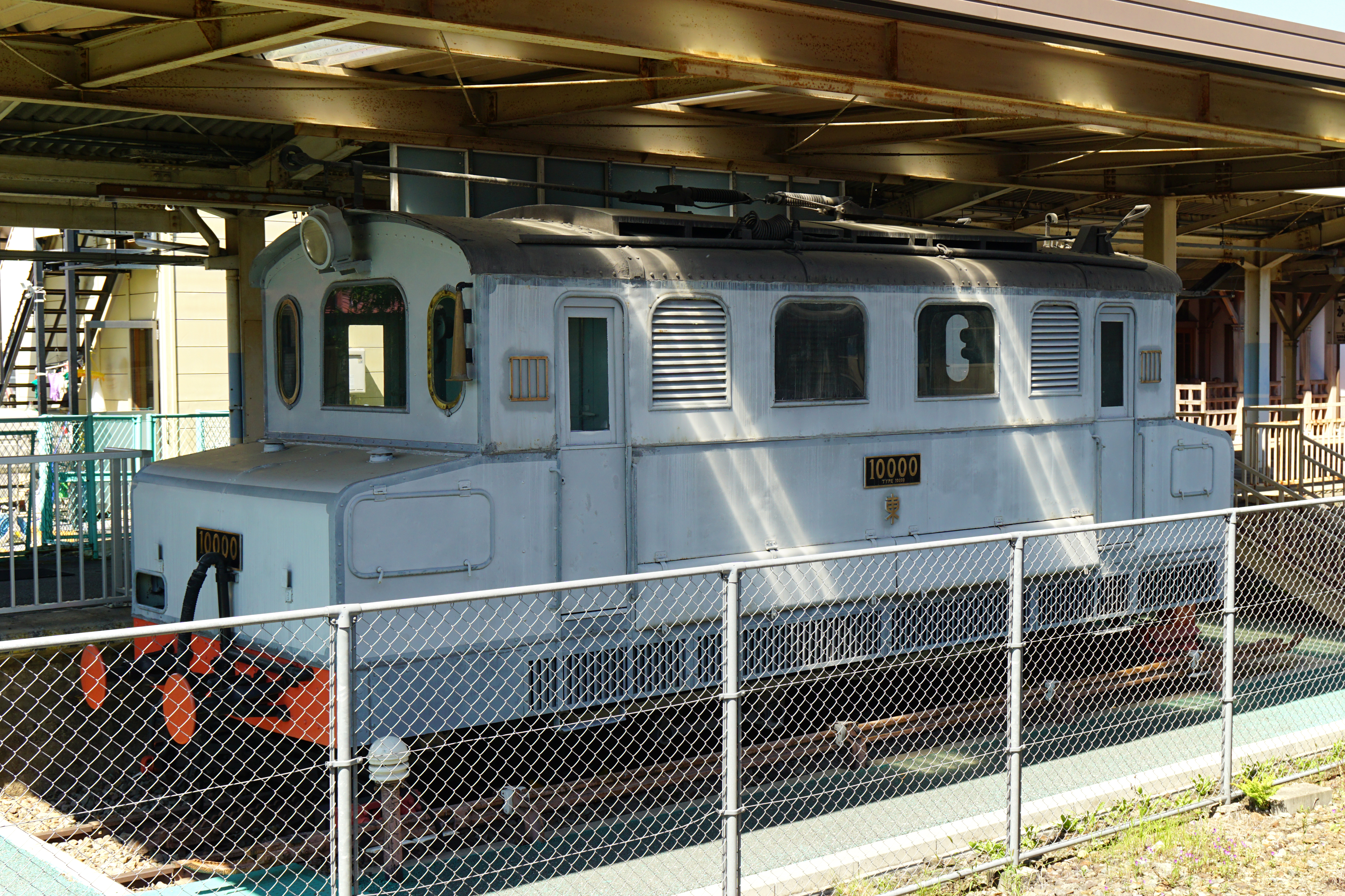 Former JNR Class EC40 electric rack locomotive 10000 preserved next to the Old Karuizawa Station in Karuizawa, Nagano prefecture, Japan